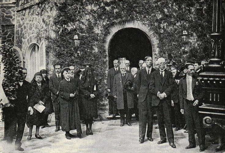 From Queen Victoria's last journey. At the departure from Villa Svezia in Rome: To the right the King and Prince Wilhelm, left Princess Maria of Greece, Grand Duchess of Baden and Princess Ingrid, in the middle Admiral Count Ehrensvärd. In the archway looming to the right, the Queen's physician, senior physician Munthe.